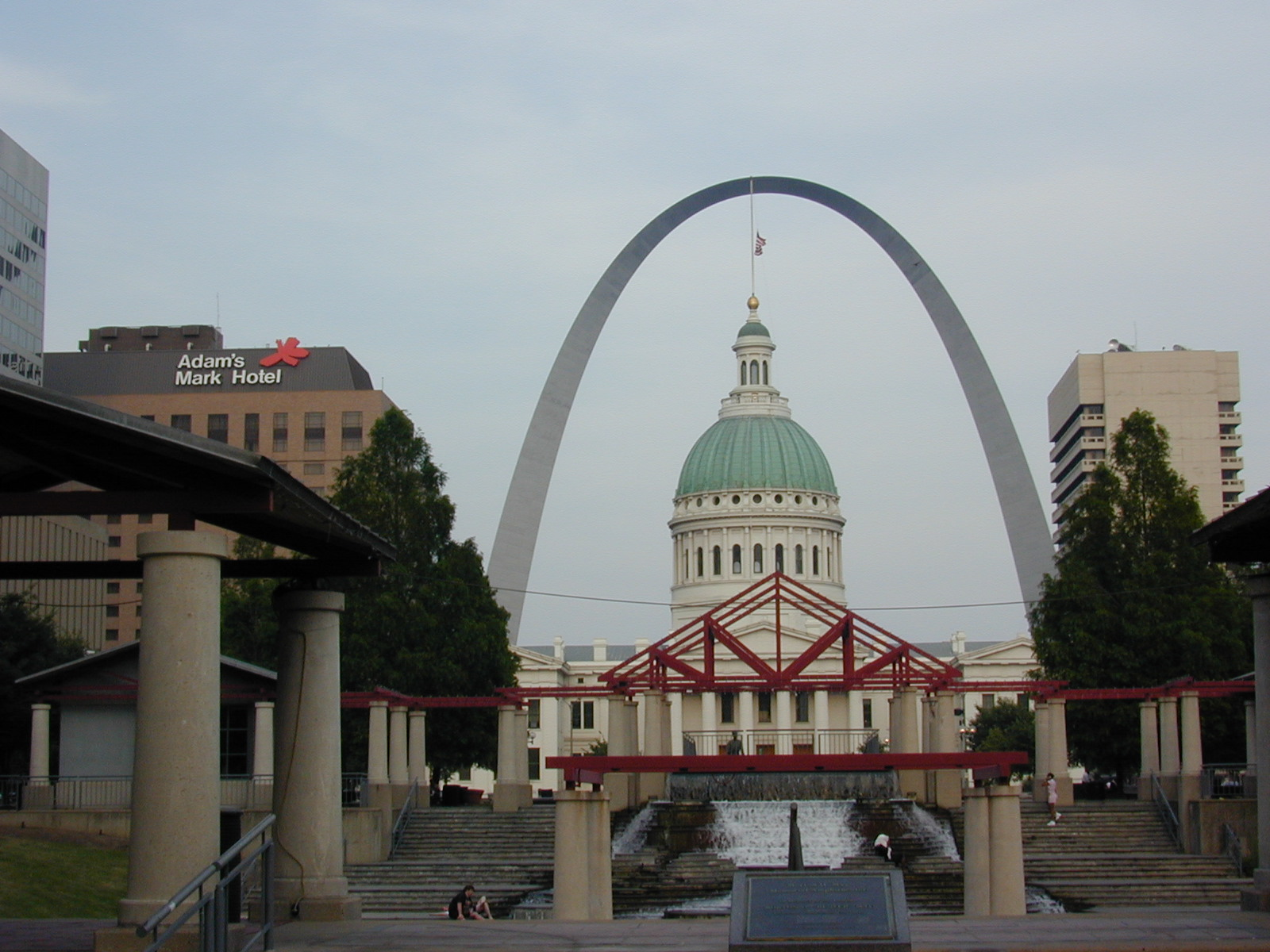 St. Louis: Court house and Gateway Arch Jan Kronsell, July 2004